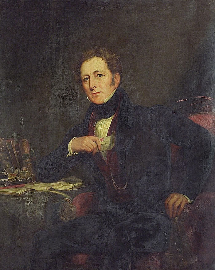 Thomas Brunton (1774-1833) Thomas Brunton invented studded-link marine chain cable which replace hempen cables and is still in use today. The studs prevented cables from kinking in use as other types did. His idea was patented in 1813 after which he and his Brother William established a factory in Stepney. Thomas gained much support from ship owners in England and from the French navy. He was killed by a runaway horse.[1]